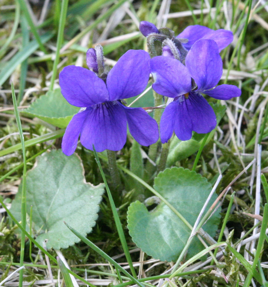 Viola odorata (Sweet Violet) on a lawn near Paris.